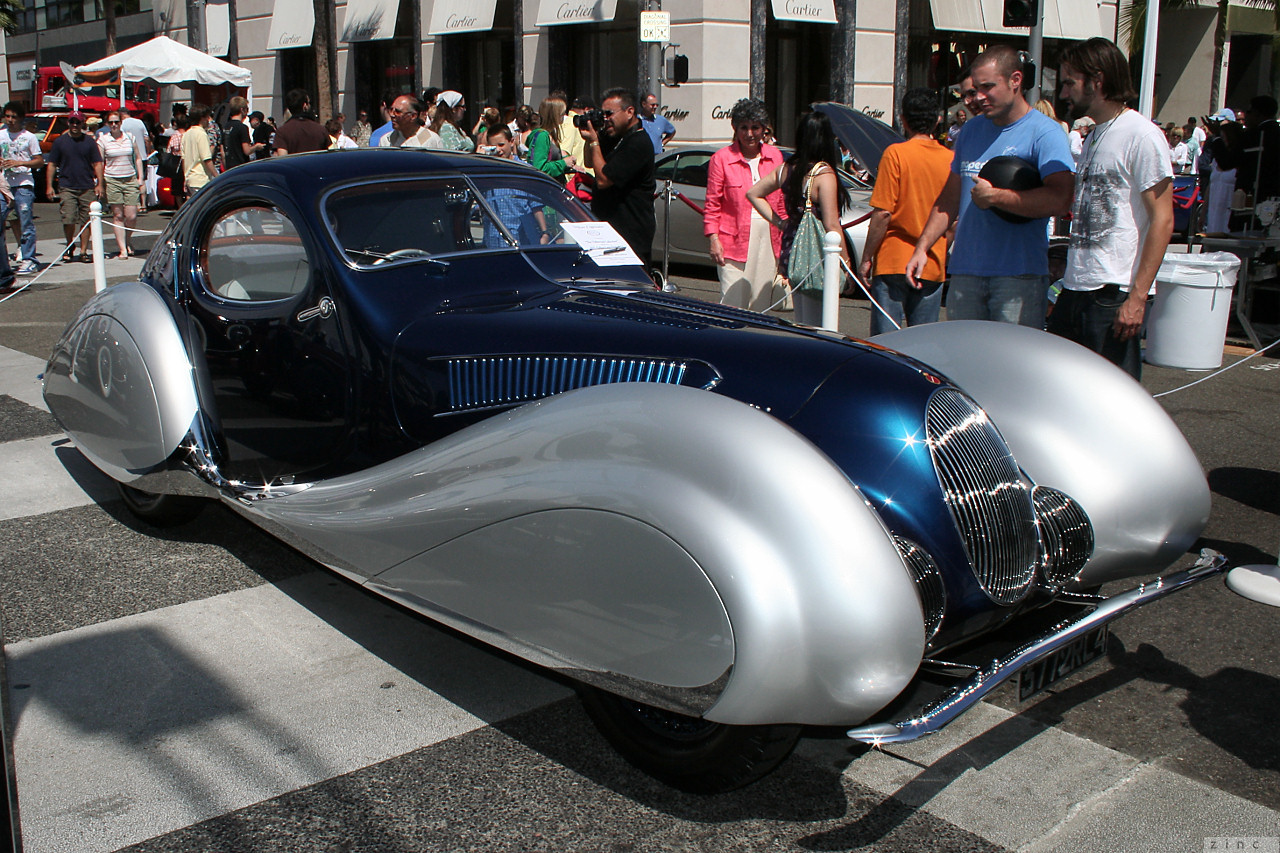 1937 Talbot Lago T150-C-SS - blue silver Beverly Hills Concours d'Elegance 2007